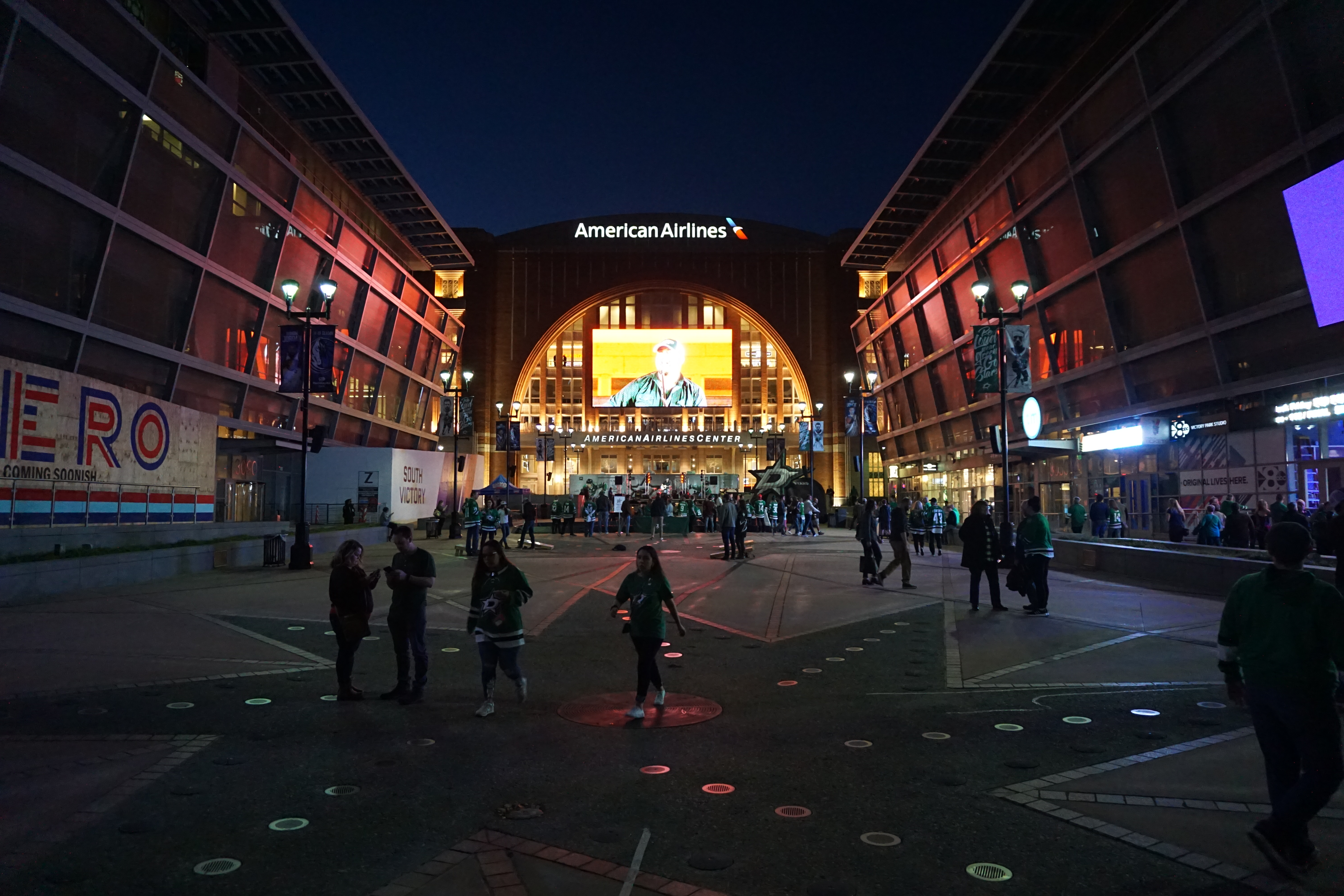 The exterior of American Airlines Center in Dallas, Texas (United States).